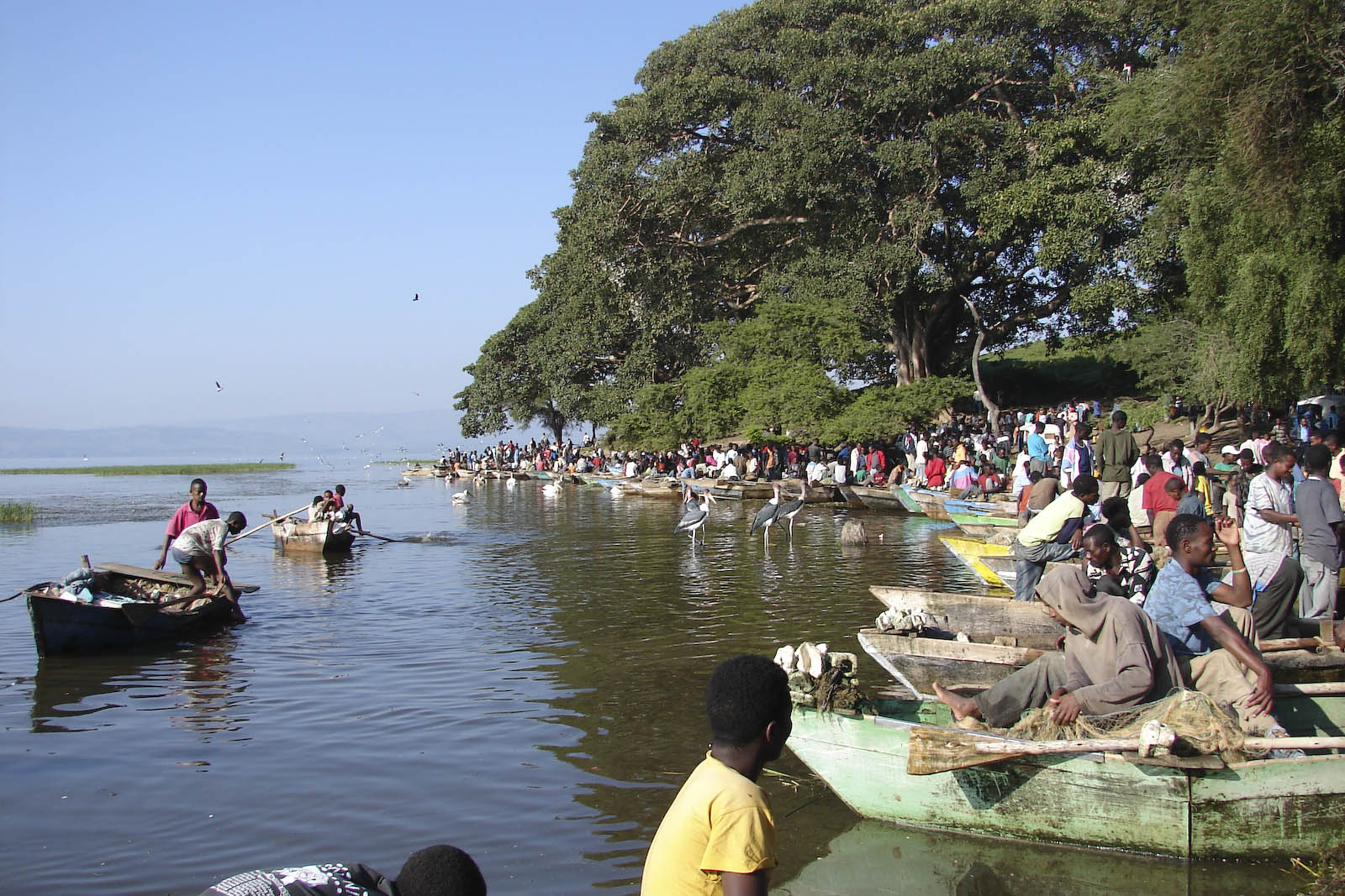 Awasa fish market (Ethiopia)